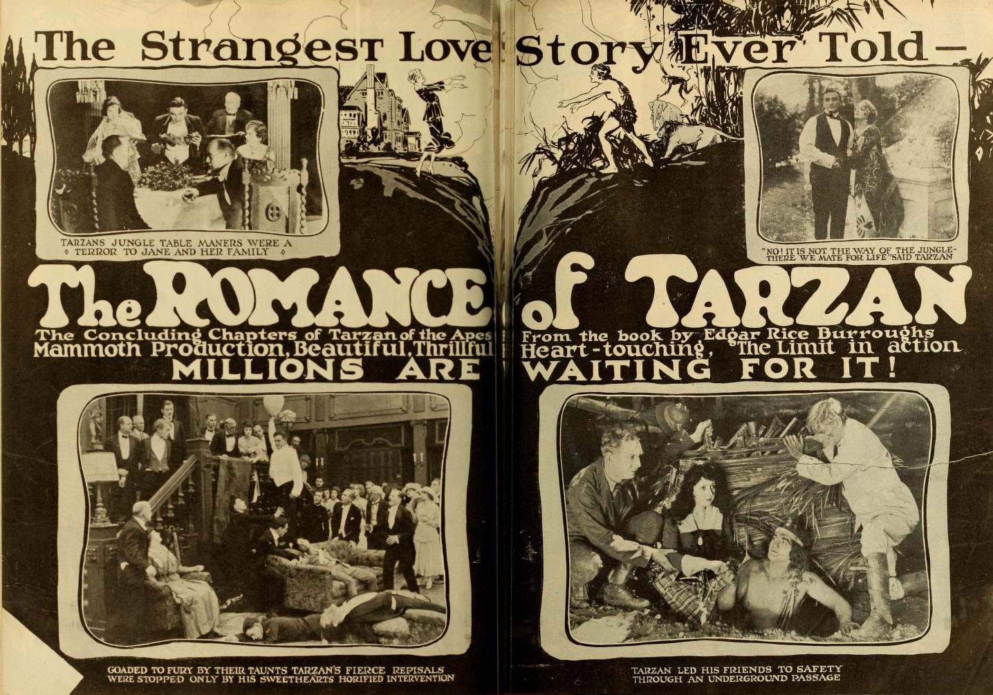 Advertisement in Moving Picture World, Sept 1918